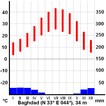 Climate diagram of Baghdad, Iraq